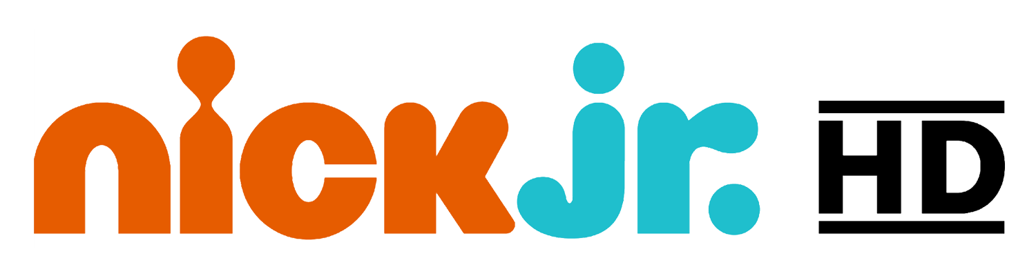 This is the unofficial logo of Nick Jr. HD.